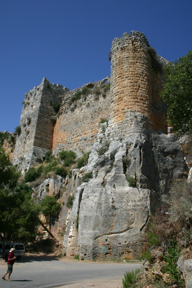 Südostbastion public domain